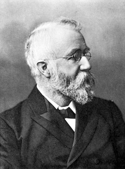 George Grenfell. Notice on it's page at the Internet Archive: Copyright-evidence: Evidence reported by scanner-scott-cairns for item thelifeofgeorgeg00hawkuoft on Aug 8, 2006; no visible notice of copyright and date found; stated date is 1909; not published by the US government; Have not checked for notice of renewal in the Copyright renewal records.